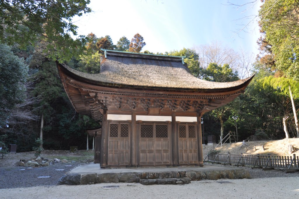 Kokeizan-kaisando